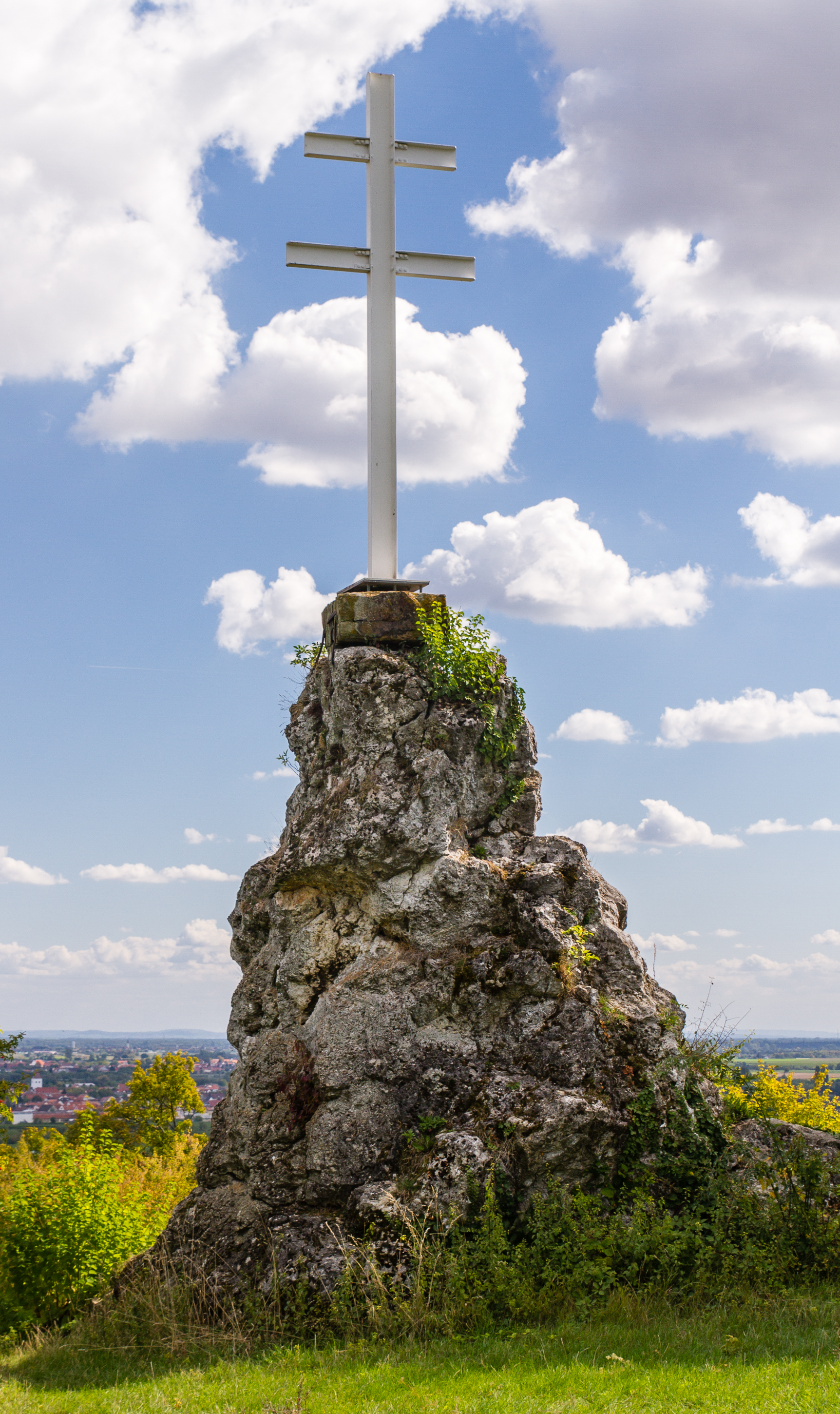 Designation: Hahnenböhler Kreuz, West side Location: In the vineyards west above Forst. Parcel of land: Im Hahnenböhl Place: Deidesheim, District Bad Dürkheim, Rhineland-Palatinate Construction time: identified by 1866 Description: Summit cross, iron patriarchal cross on limestone rock.